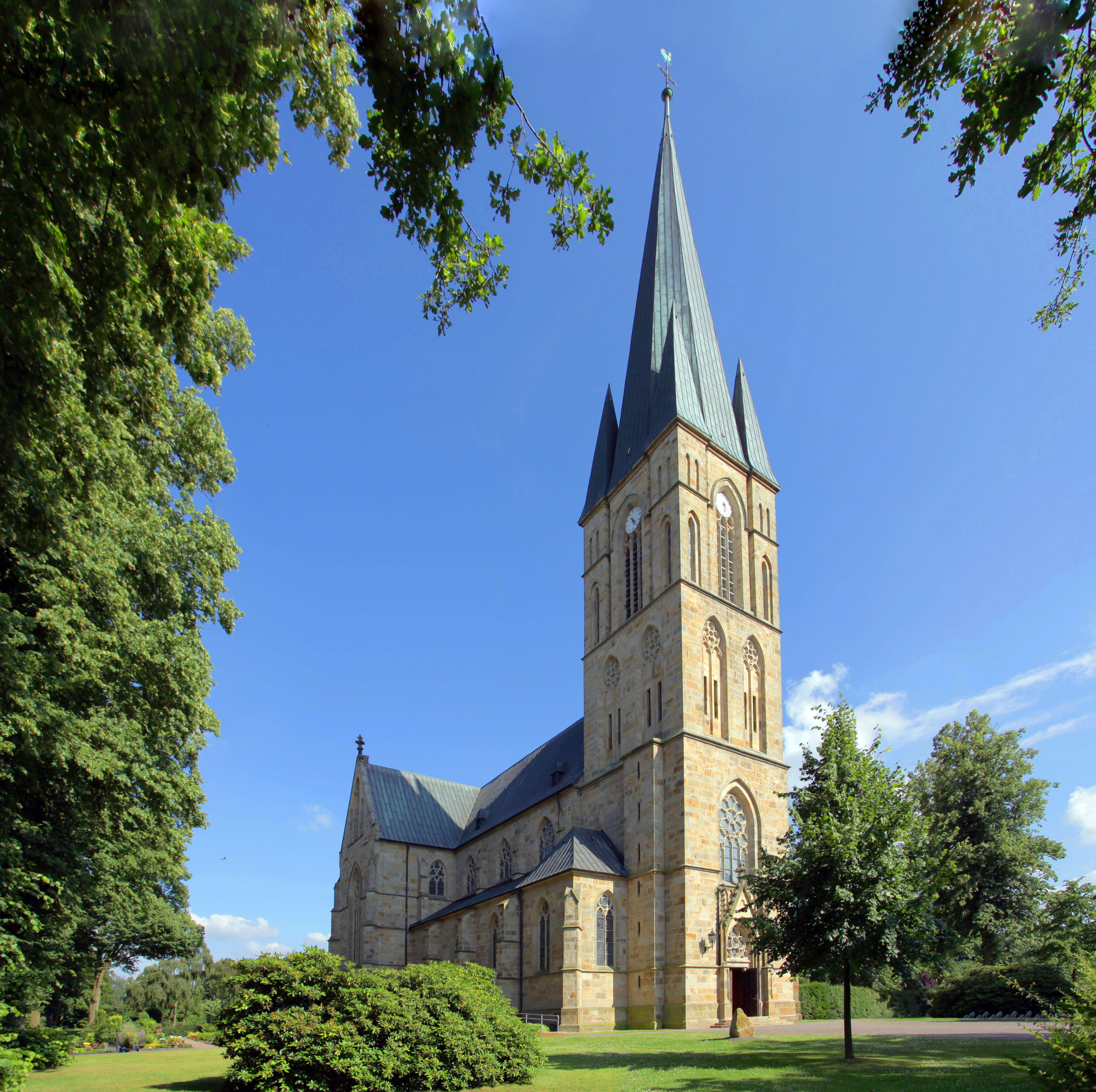 St. Dionysius, Welbergen Germany